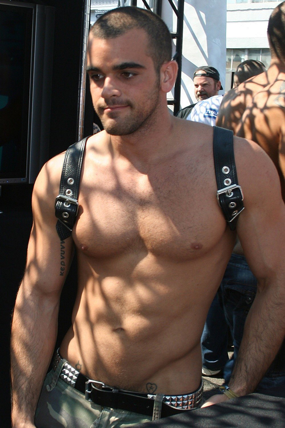 Damien Crosse at Folsom Steet Fair